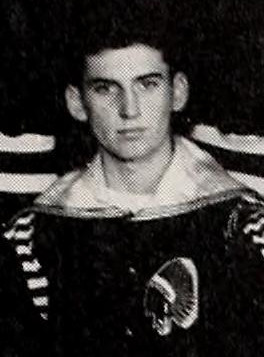 Basketball coach Stan Albeck